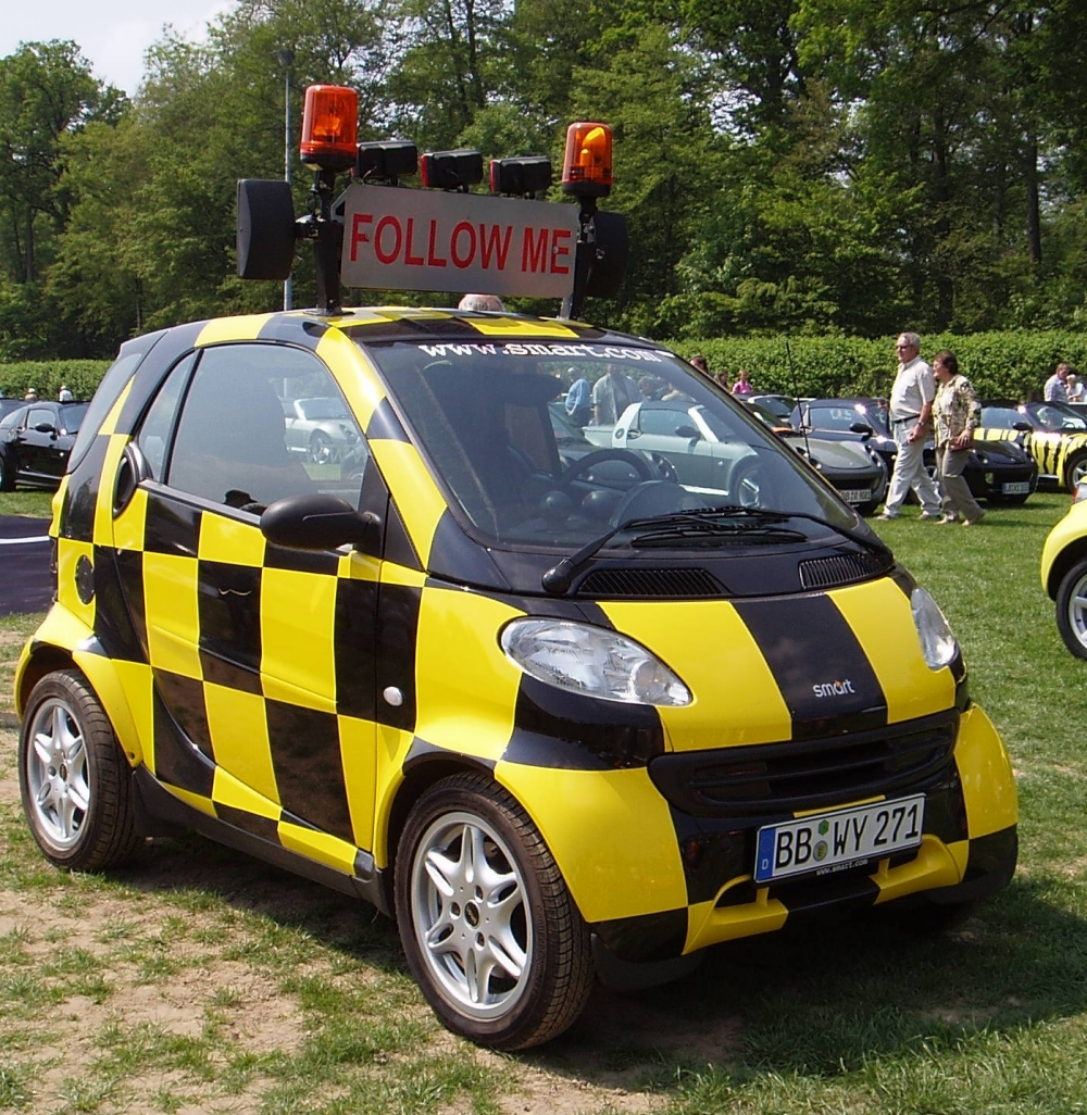 Smart fortwo - Sonderfahrzeug